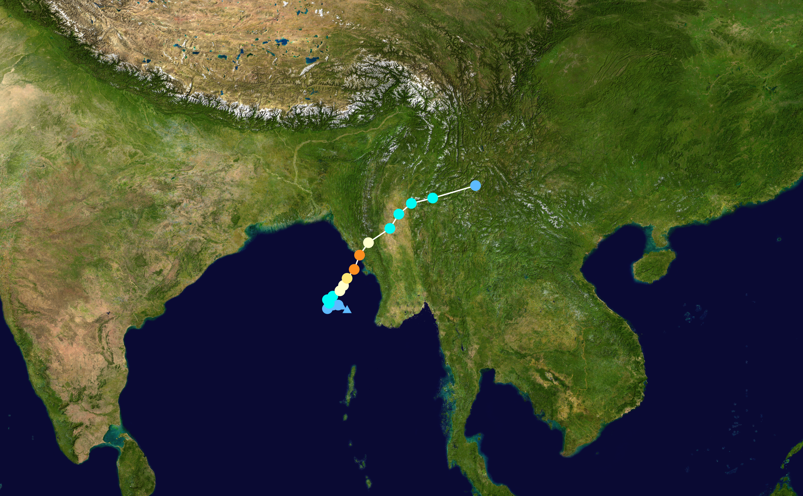 Track map of Extremely Severe Cyclonic Storm Giri of the 2010 North Indian Ocean cyclone season. The points show the location of the storm at 6-hour intervals. The colour represents the storm's maximum sustained wind speeds as classified in the Saffir–Simpson scale (see below), and the shape of the data points represent the nature of the storm, according to the legend below. Saffir–Simpson scale Tropical depression≤38 mph≤62 km/h Category 3111–129 mph178–208 km/h Tropical storm39–73 mph63–118 km/h Category 4130–156 mph209–251 km/h Category 174–95 mph119–153 km/h Category 5≥157 mph≥252 km/h Category 296–110 mph154–177 km/h Unknown Storm type Tropical cyclone Subtropical cyclone Extratropical cyclone / Remnant low / Tropical disturbance / Monsoon depression